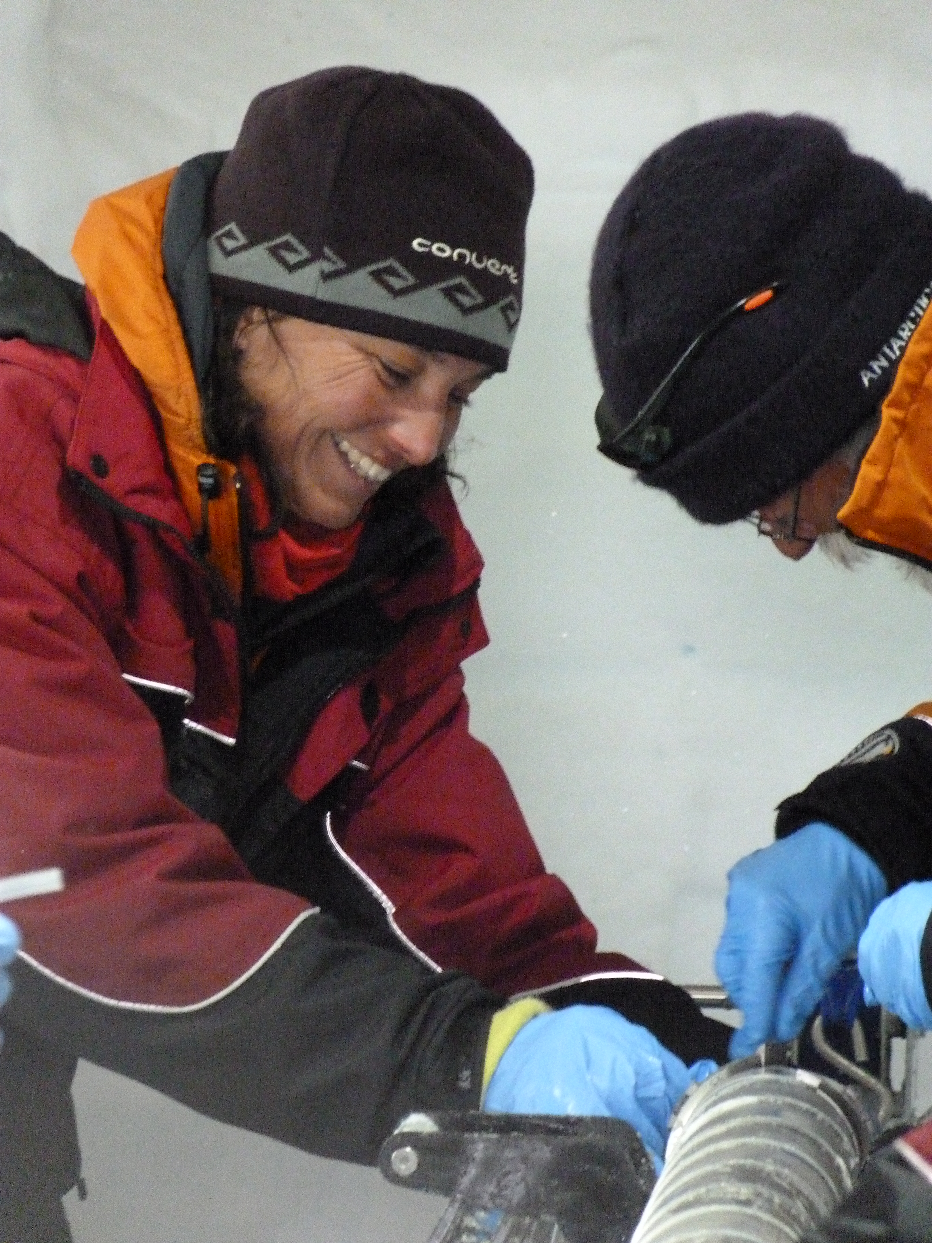 Nancy Bertler and Alex Pyne recovering bedrock material from the bottom of the RICE core, Roosevelt Island, Antarctica